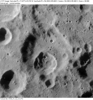 Mallet is in the center with 28-km Mallet A on its floor. Lettered craters visible in this view include little 5-km Mallet E on the northeast floor (at about 1 o’clock), shallow 28-km Mallet C directly above Mallet; 32-km Mallet B in the lower left; 42-km Mallet D partially visible along the right margin with a small piece of 43-km Mallet A in the extreme lower right; 23-km Young F near the left margin; and 46-km Young D, partially visible in the upper left.